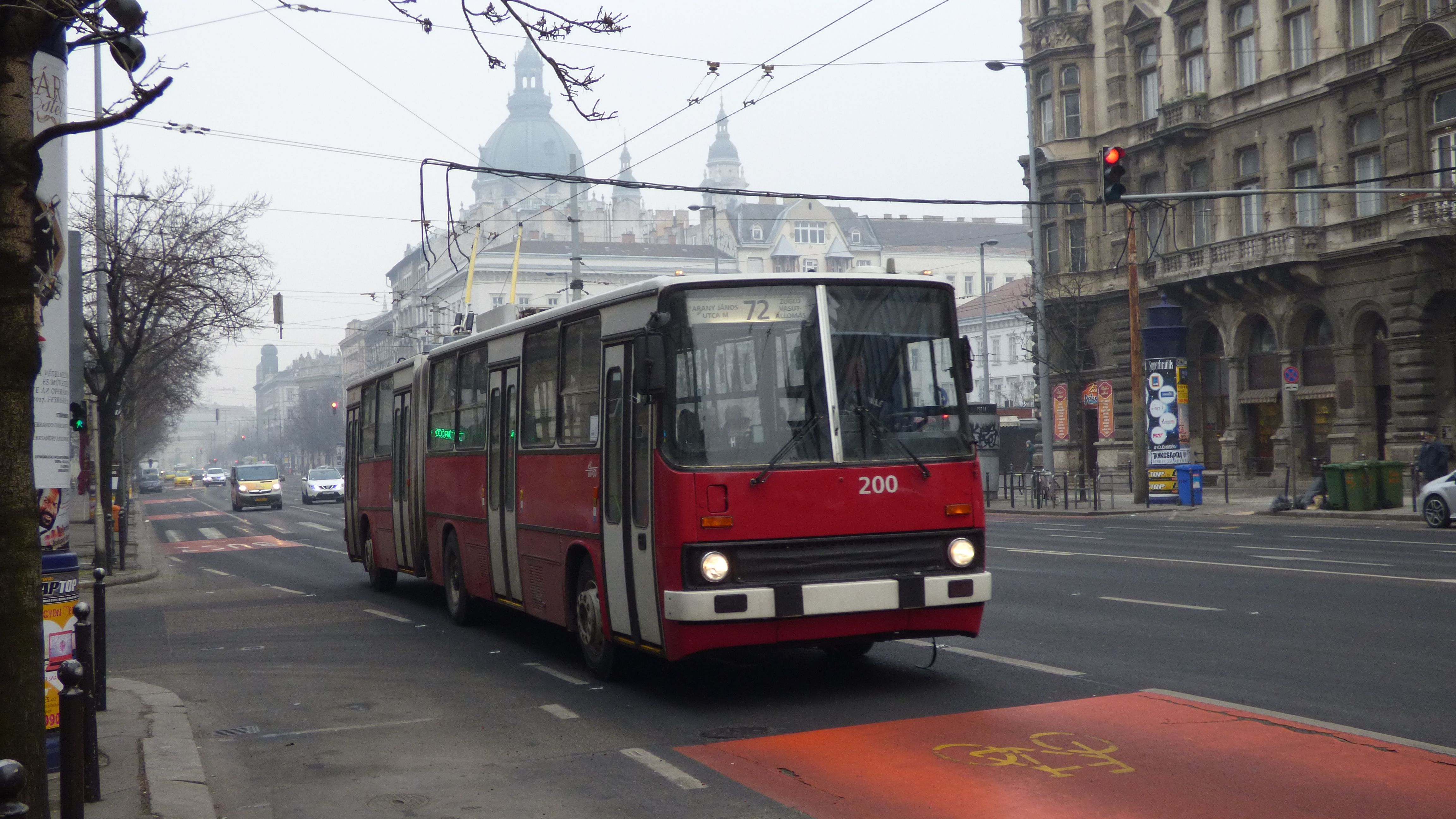 Ikarus-GVM 280.94T (cn. 200), trolleybus no. 72, Budapest